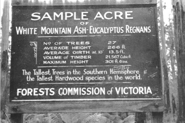 Sample Acre of Mountain ash - Cumberland Falls